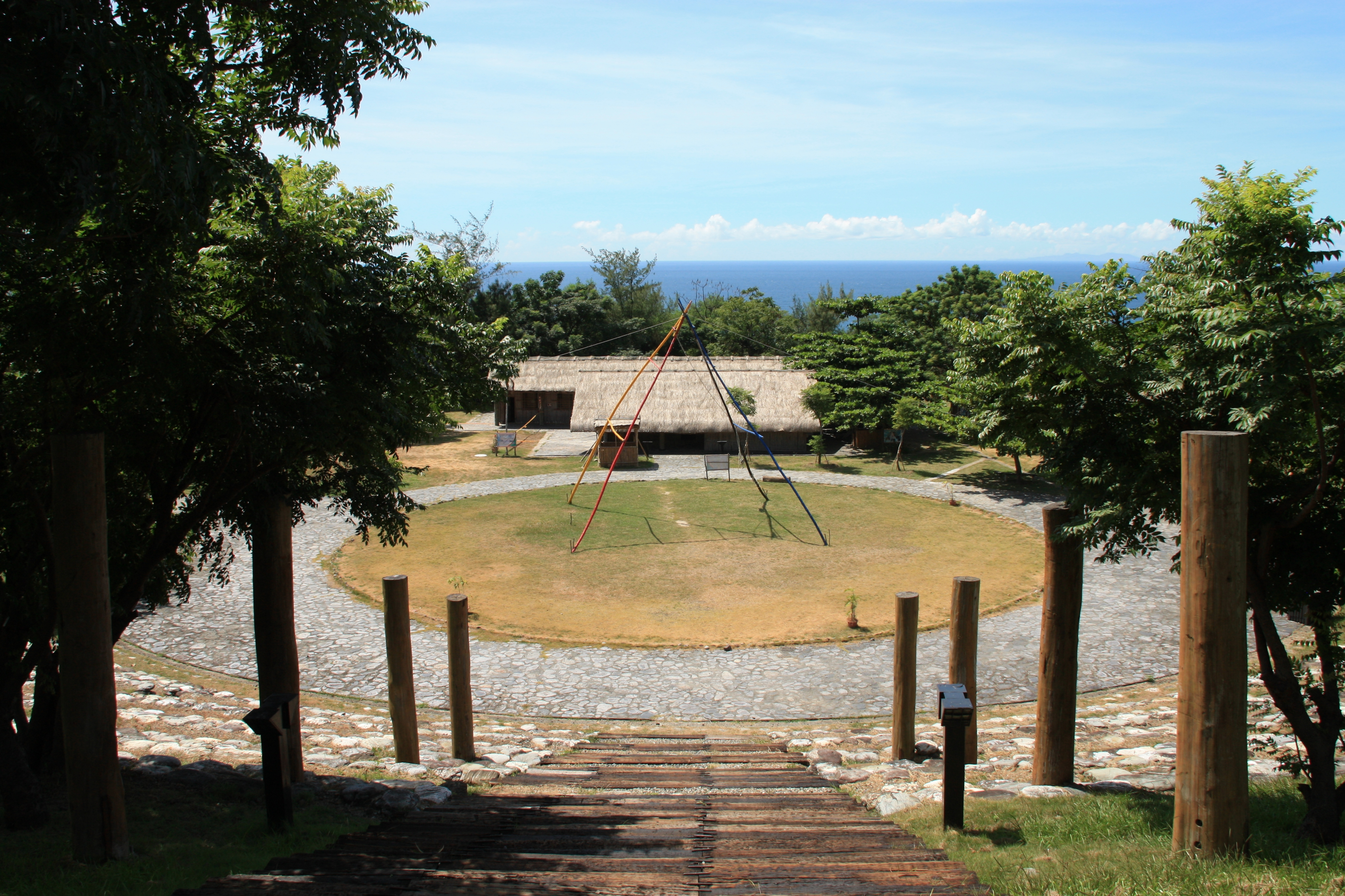 Taitung CountyChenggong TownshipAmis Folk Center